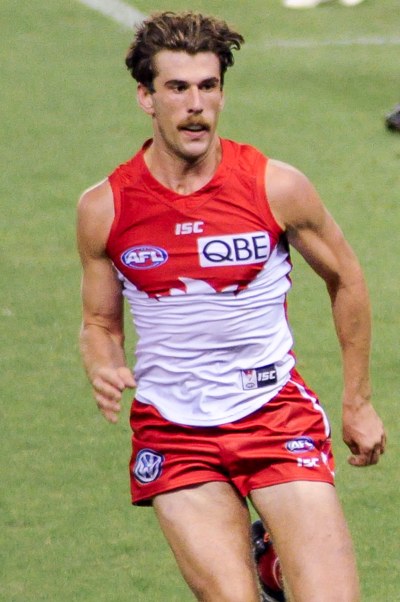 Robbie Fox during the AFL round two match between the Western Bulldogs and Sydney on 31 March 2017 at the Etihad Stadium in Melbourne, Victoria.